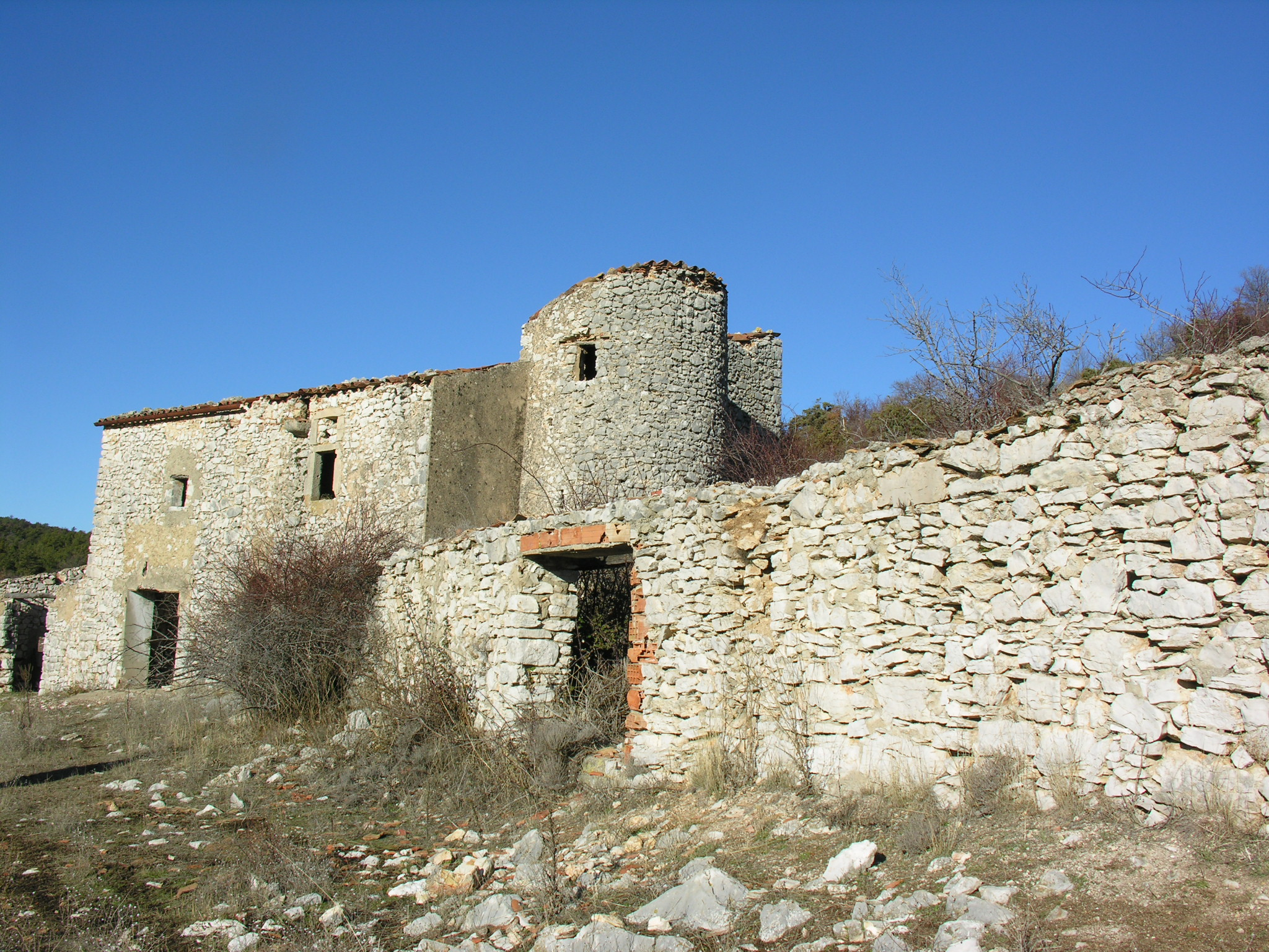 Canjuers : Gouria Farmhouse with its dovecote